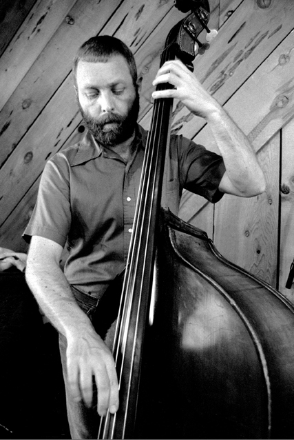 Dave Holland at Bach Dancing&Dynamite Society, Half Moon Bay CA 3/29/87, with his quintet: Steve Coleman, alto sax; Kenny Wheeler, flugelhorn; Robin Eubanks, trombone; Marvin Smith, drums Photo: Brian McMillen /